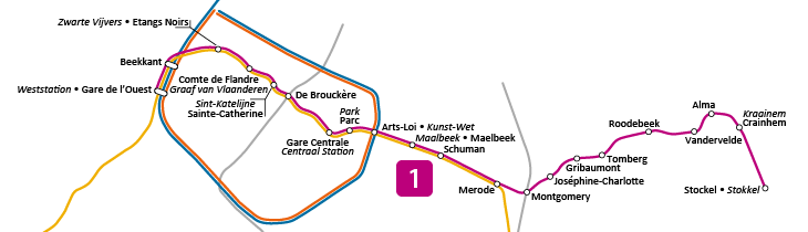 Itinerary map of Brussels metro line 1